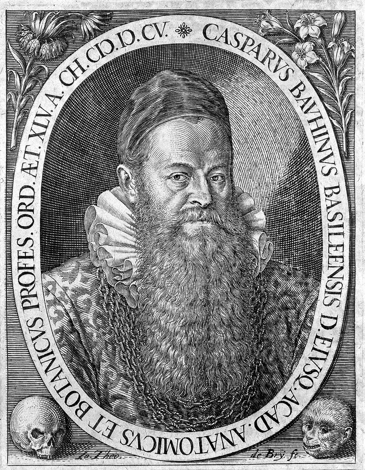 Portrait from the front of Caspar Bauhin Rare Books Keywords: Anatomy; Caspar Bauhin (1560-1624)